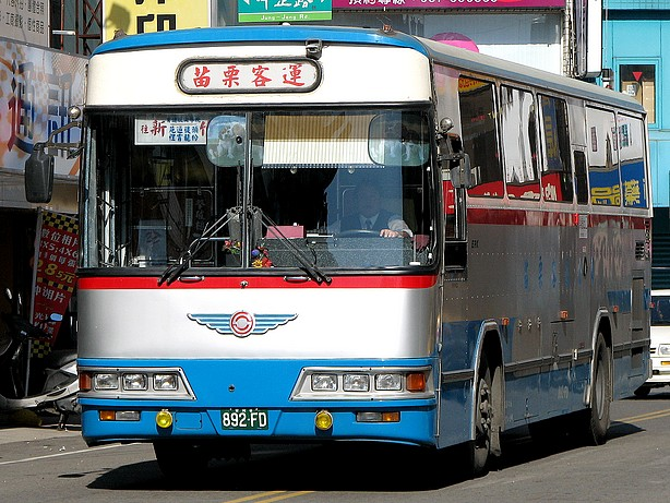 HINO LRK bus 892-FD of MiaoLi Motor Transportation.